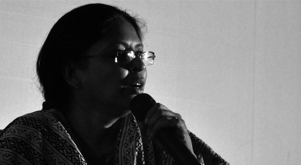 Film editor Bina Paul during an open forum at Kalabhavan.